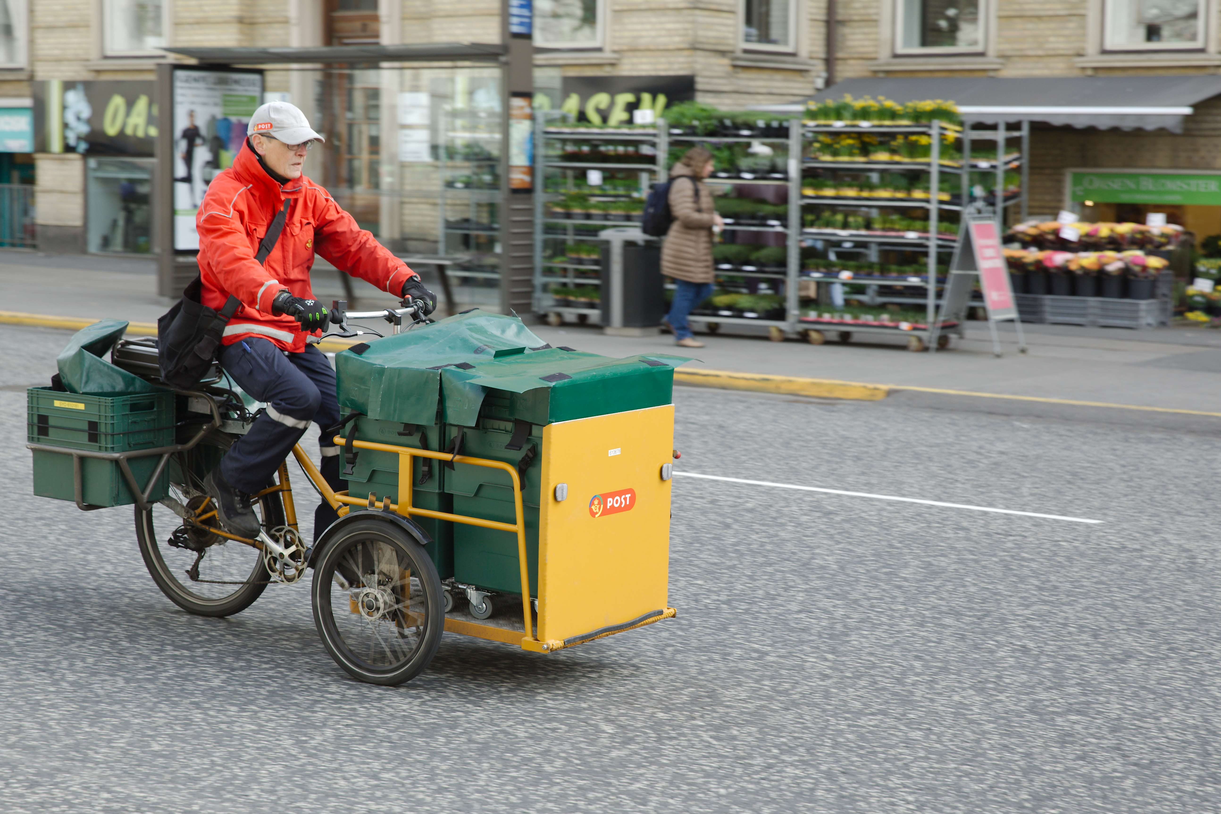 Postman on three-wheeled electric cycle in Park Allé, Aarhus